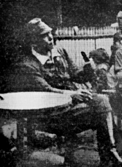 Lieutenant General Itô Takeo